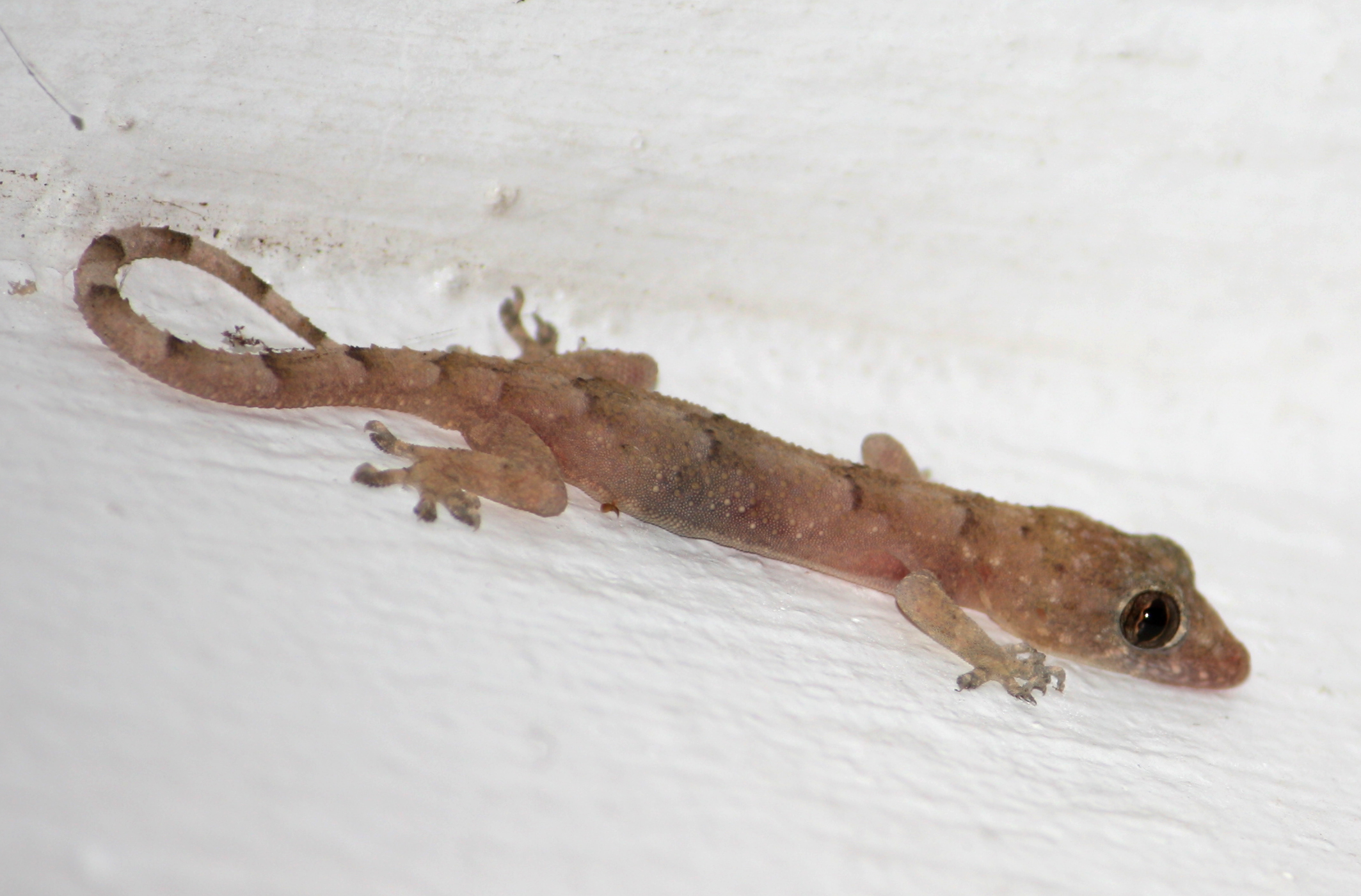 Tropical House Gecko (Hemidactylus mabouia). Picard, Dominica.